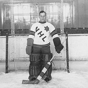 Charlie Gardiner (ice hockey) at w:1933–34 NHL season#Ace Bailey Benefit All-Star Game